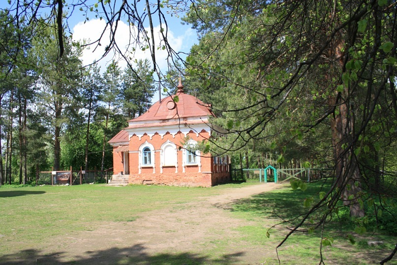 Perynsky skit. Veliky Novgorod, Russia